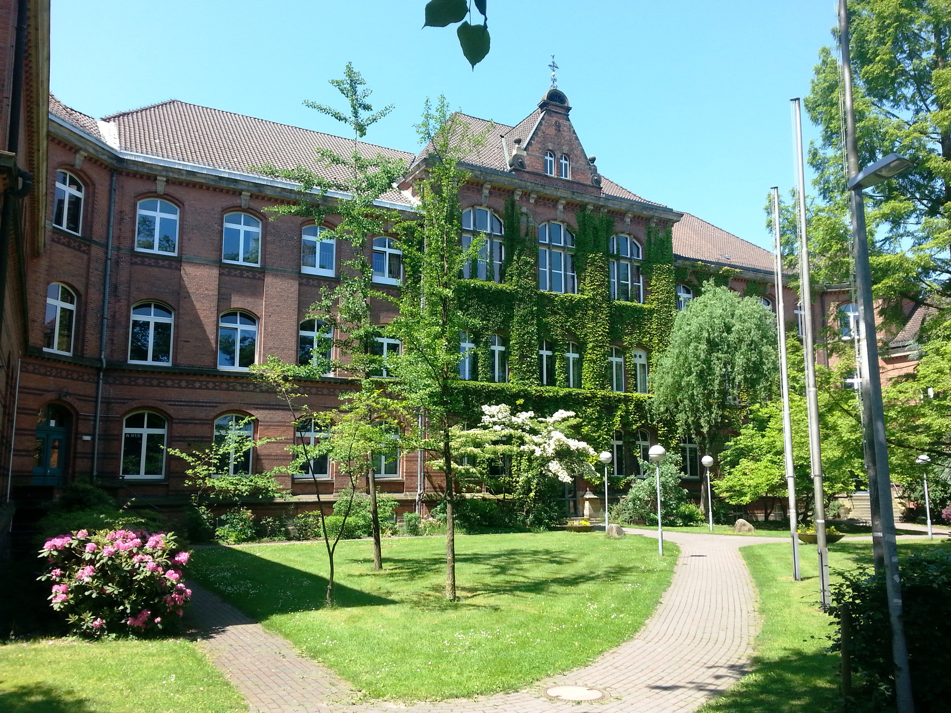 The Gymnasium Athenaeum (i.e. Athenaeum grammar school), established in 1588, in Stade, Lower Saxony, Germany. Altbau part (i.e. old building; built in 1901 for the Stade Teacher Training Cellege, est. in 1789, closed in 1925) with its eastern (front) façade to the forecourt towards Harsefelder Straße. The forecourt is flanked by the Altbau's southern, central (main) and northern wing.